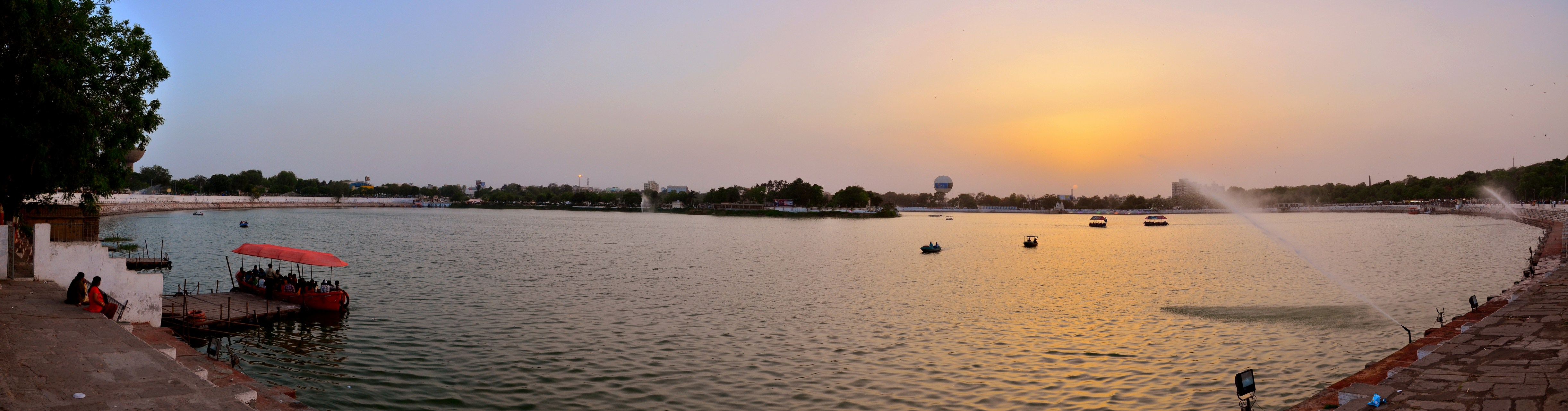 Panorama of Kankaria Lake